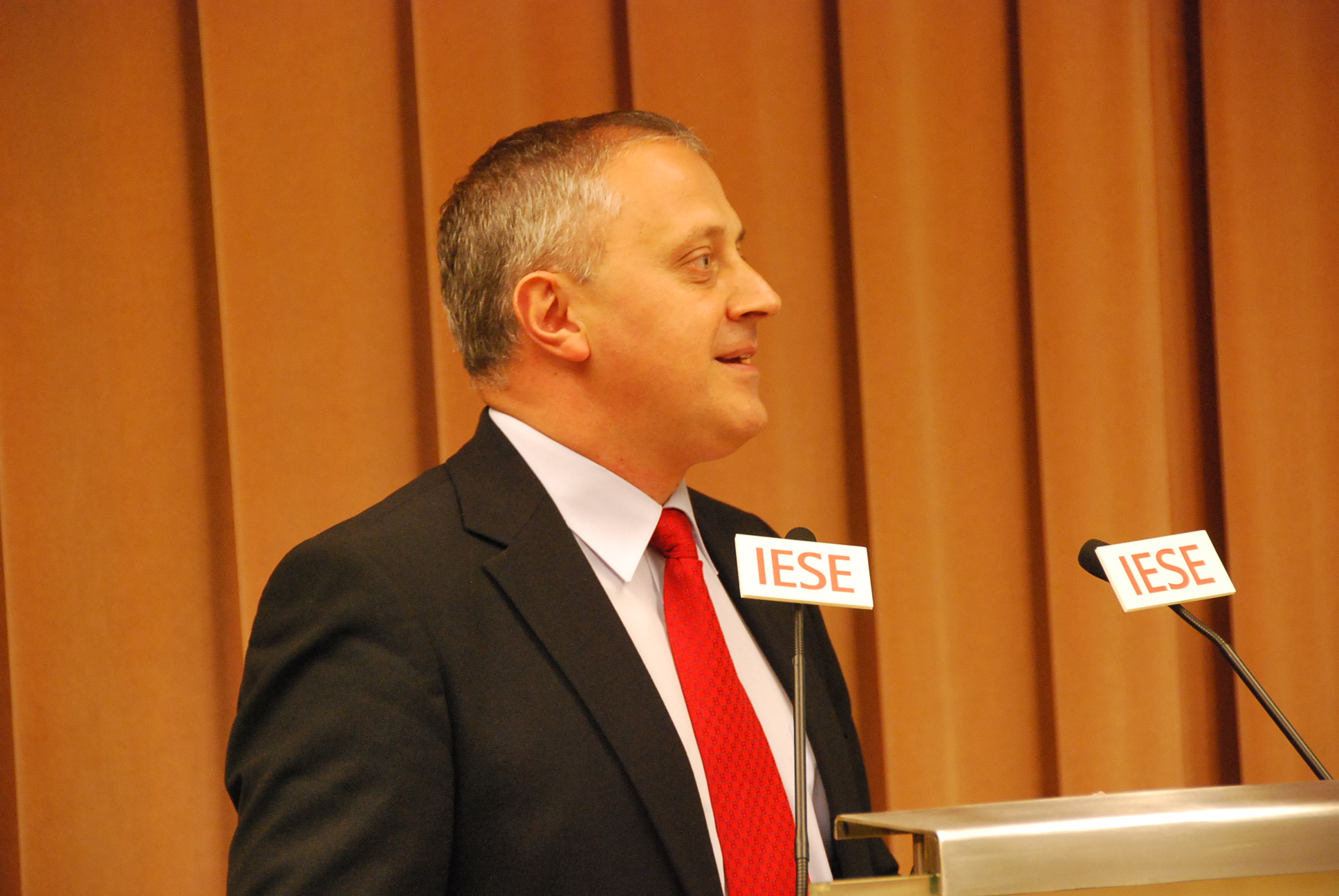 Pla de Vol presentation at IESE (Barcelona)